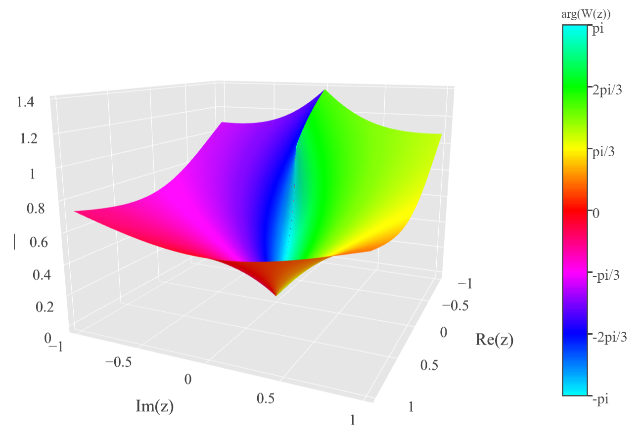 The modulus of the principal branch of the Lambert W function, colored according to the argument(W(z))